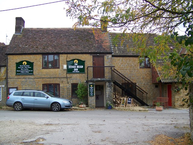 The Stags Head, Yarlington The Stags Head is more than a pub - its a village pub. That means it serves the local community and plays a full and active part in the many local activities. The Stags Head opened in the 1850s